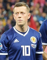 Scottish footballer Callum McGregor on 10 October 2019, during the 2020 UEFA European Championship qualifying match between Scotland and Russia in Moscow.